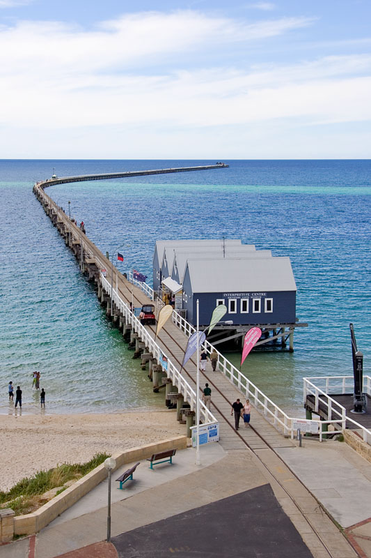 Busselton Jetty, taken from the top of the Jetty Point Lighthouse